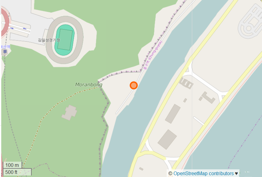 Open Street Map showing the Pubyok Pavilion marked with an orange dot. From